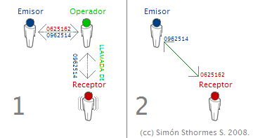 Diagrama de Funcionamiento del Mobile Telephone System (How to works Mobile Telephone System?)